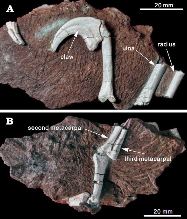 A troodontid theropod Xixiasaurus henanensis gen. et sp. nov. (HGM 41HIII−0201; holotype), lower–middle Majiacun Formation (Upper Creta−ceous: Coniacian–Campanian), Henan Province, China; partial right fore−limb. A. First digit and partial ulna and radius. B. Distal ends of metacarpals II and III, first phalanx and proximal end of the second phalanx.